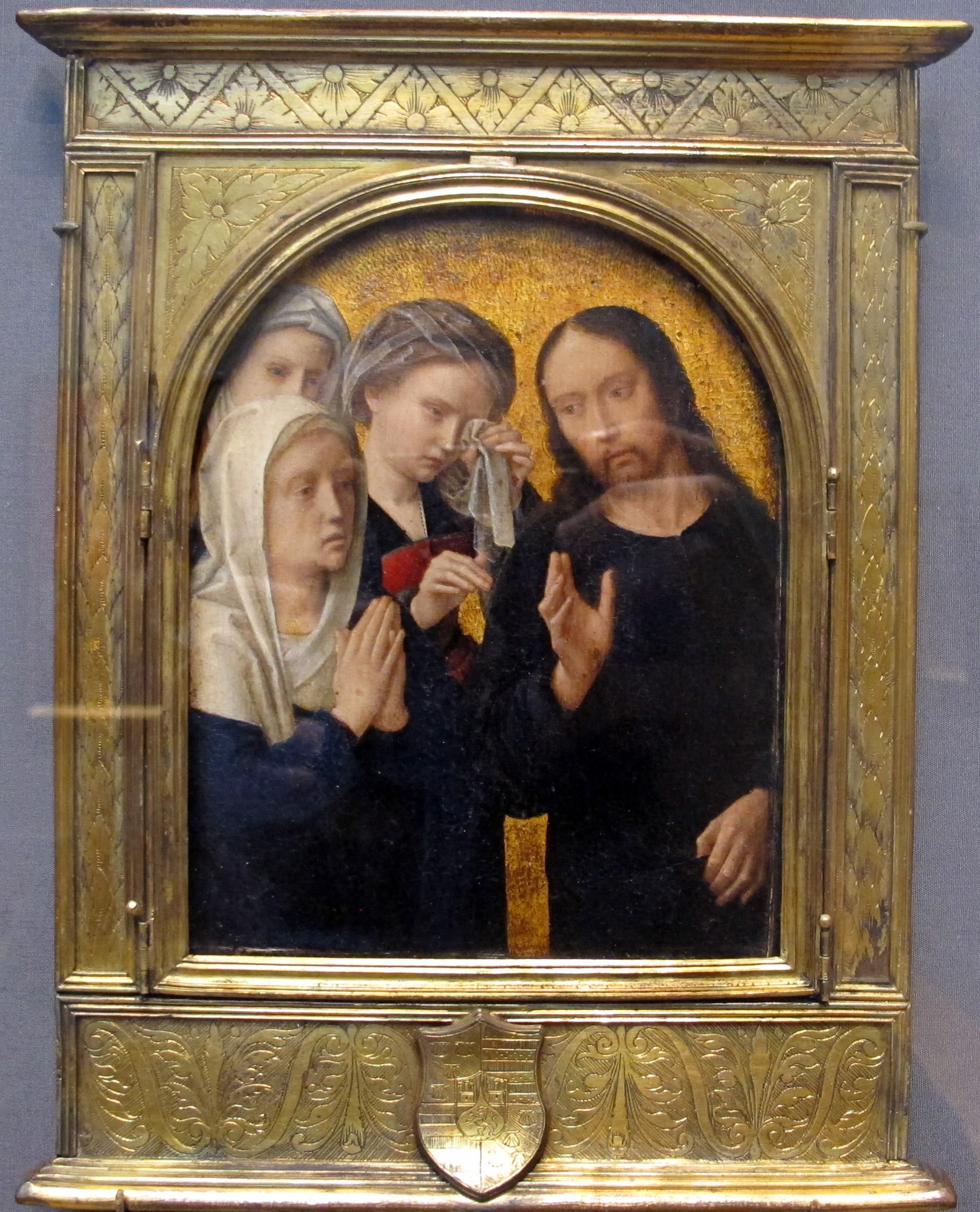 Flemish paintings in the Metropolitan Museum of Art